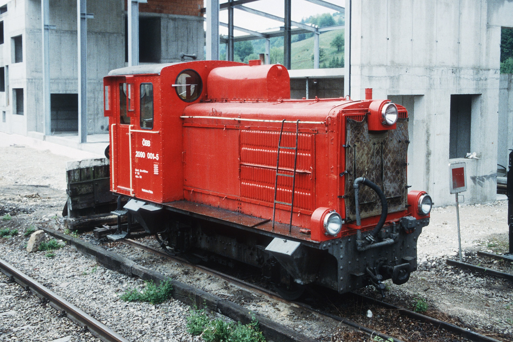 ÖBB Narrow gauge diesel shunter 2090.01 in Waidhofen an der Ybbs.